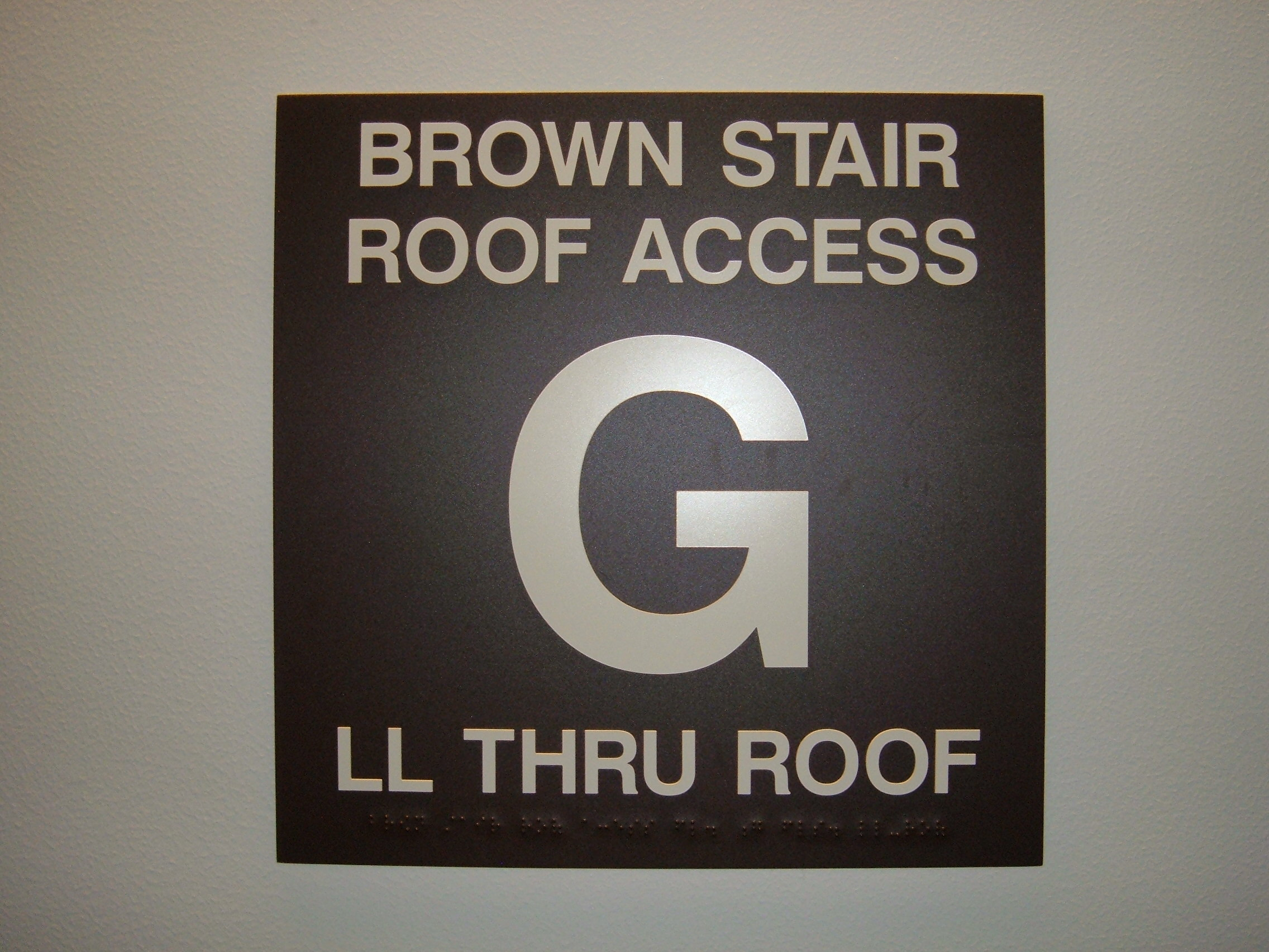 Roof access sign with braille translation found in a hospital in Daly City, California.